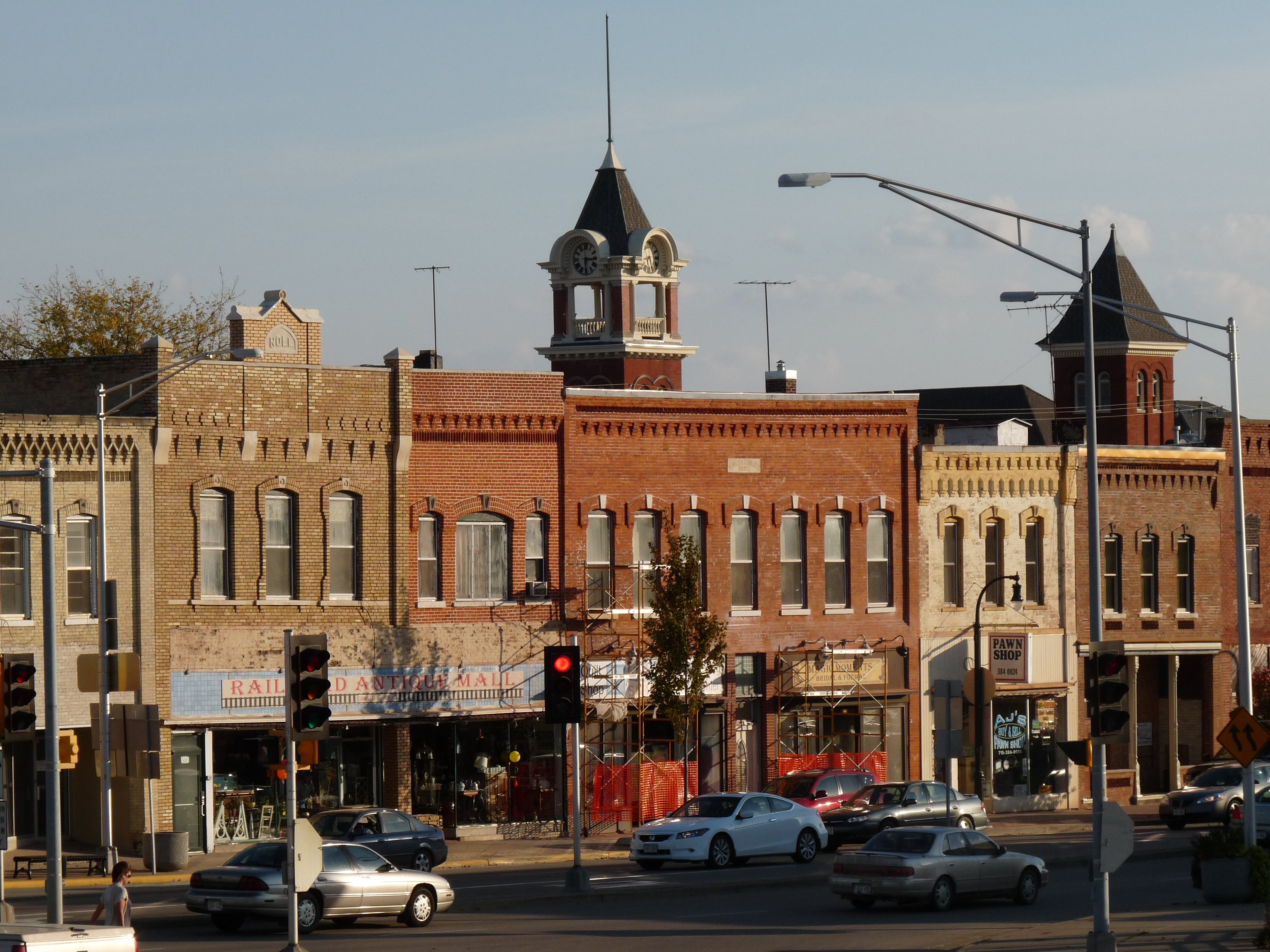 Central Avenue in Marshfield, Wisconsin is lined by many old brick businesses built as early as 1887. In the background are the two towers of the old city hall. The whole area is a listed on the National Register of Historic Places.